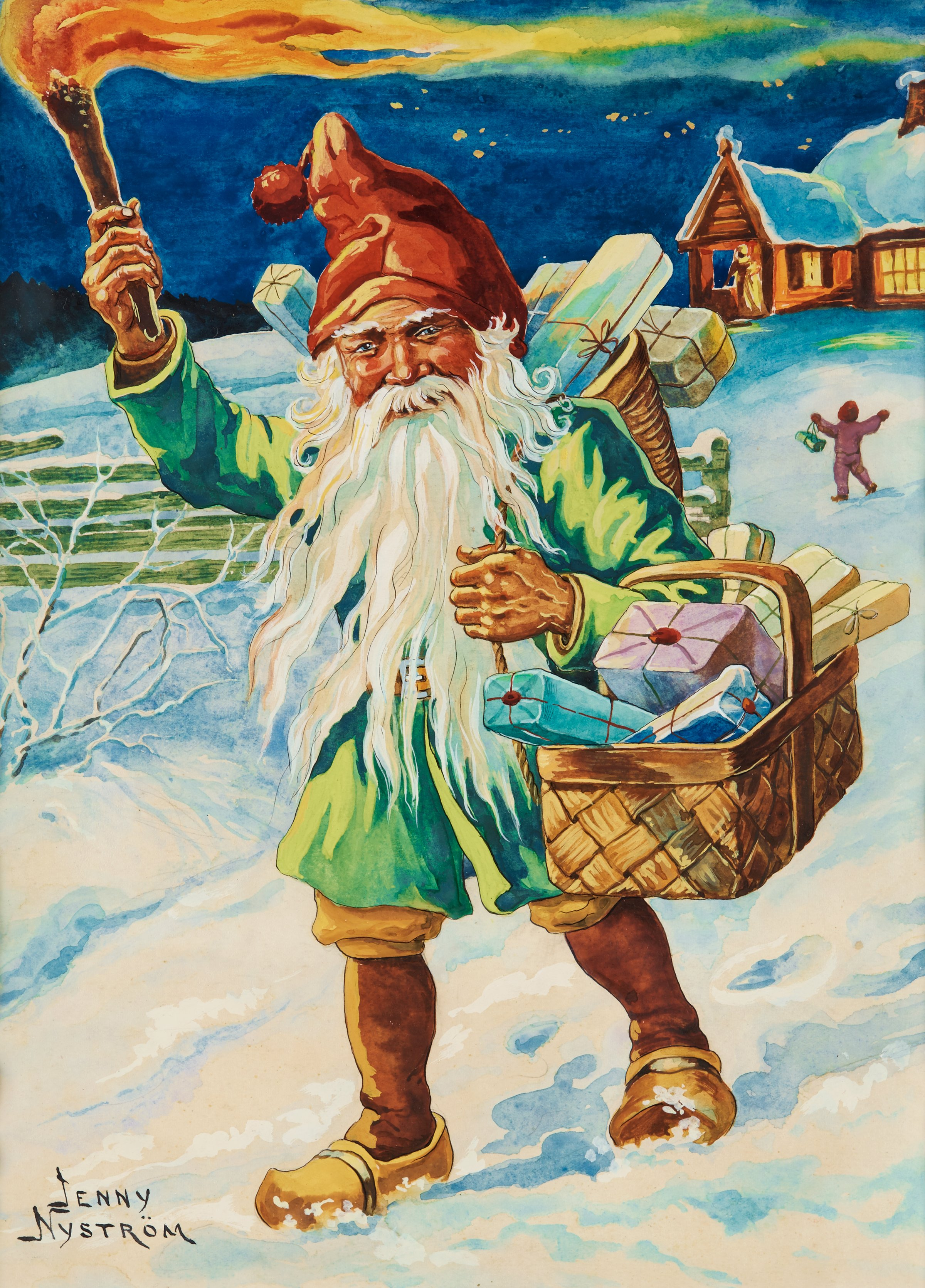 Christmas card by Jenny Nyström (1854-1946), Watercolor 38.5 x 28 cm